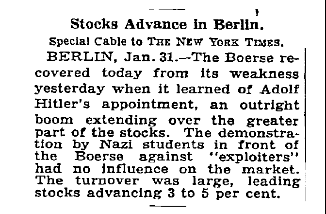 New York Times about stock market reaction on hitler rise to power